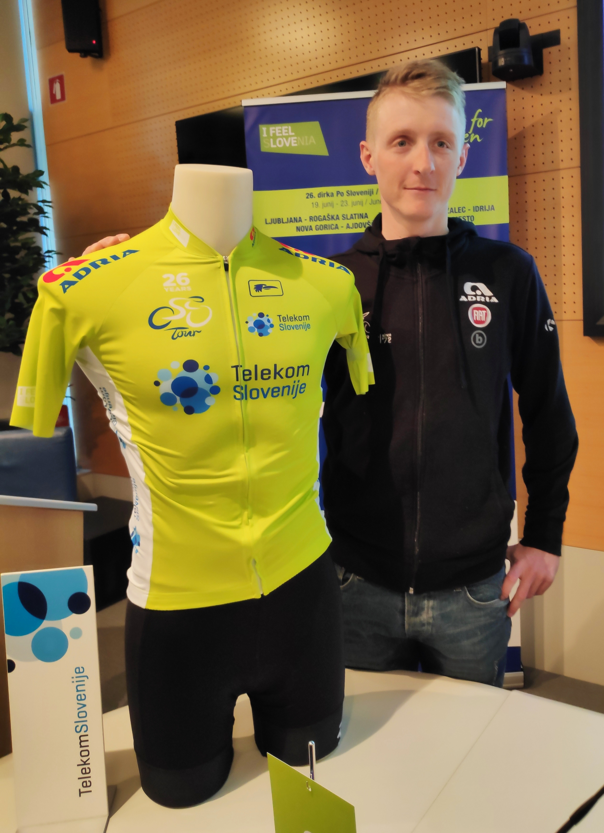 Marko Kump (Team Adria Mobil) at 2019 Tour of Slovenia press conference